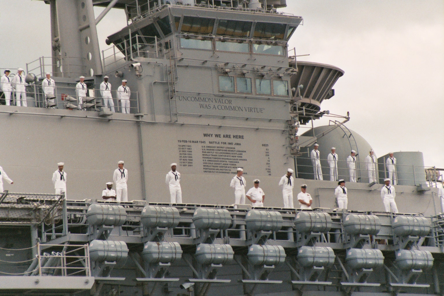 The ships mission is painted on the bridge. (Ship arrived in Portland Harbor July 2, 2005)